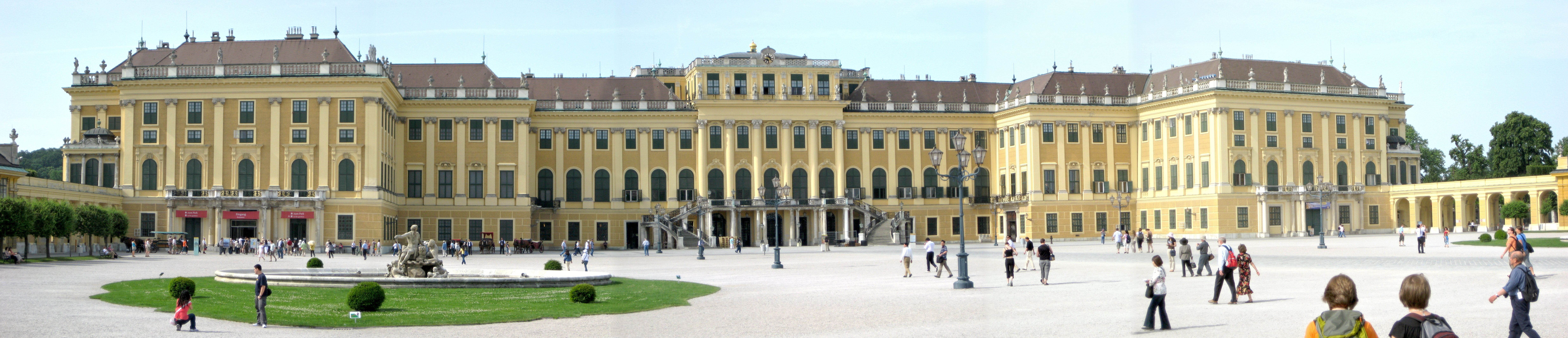 Austria, Vienna, Schönbrunn Palace